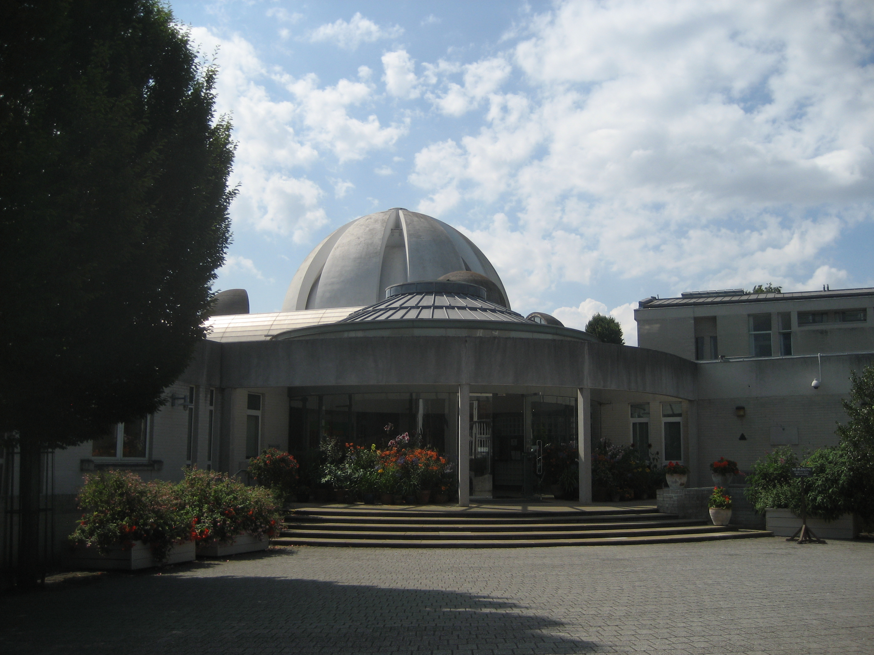 Dome, Murray Edwards College, Cambridge, England (UK)